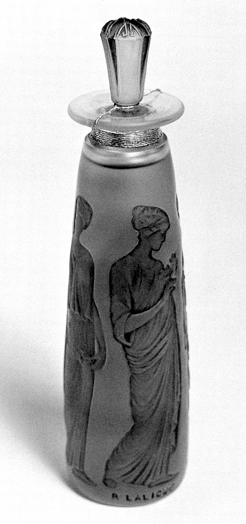 Perfume bottle designed by Lalique, Paris, about 1910 for Coty Perfume. Wellcome Images Keywords: art nouveau; Cosmetics; Pharmacy